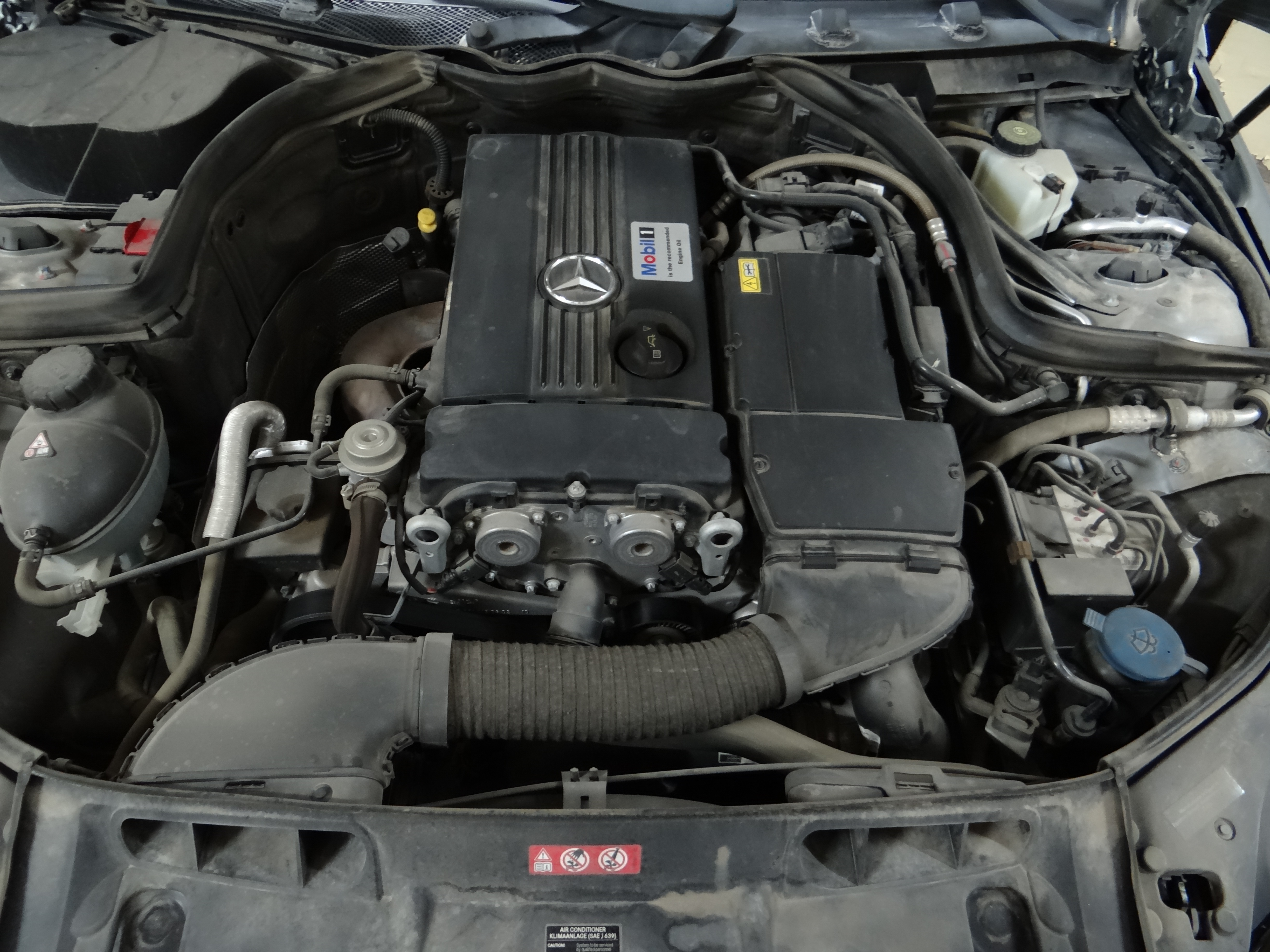 Engine Bay